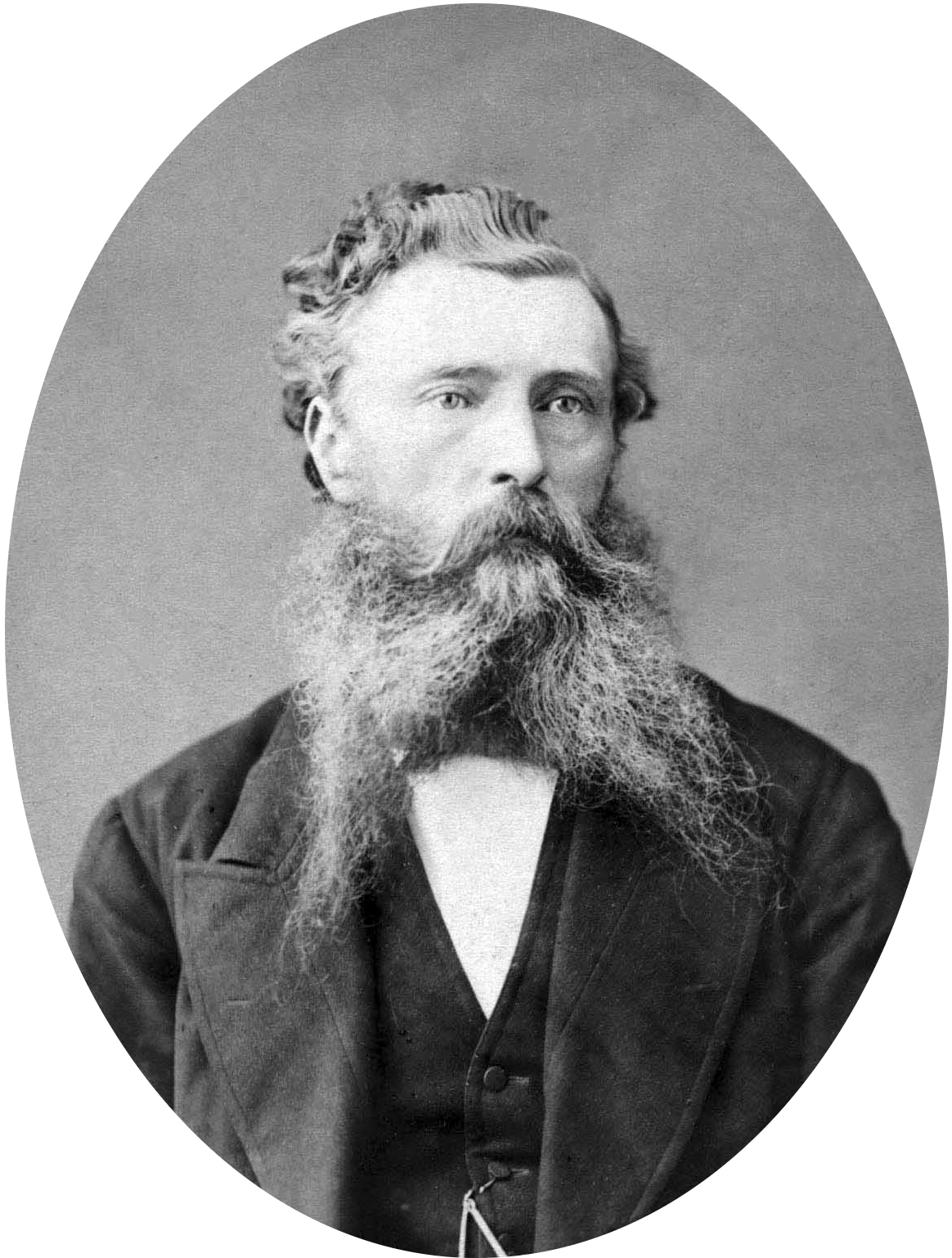 Portrait of State President Dr. Th. F. Burgers of the South African Republic, in office 1871-1877. Florence, Italy.